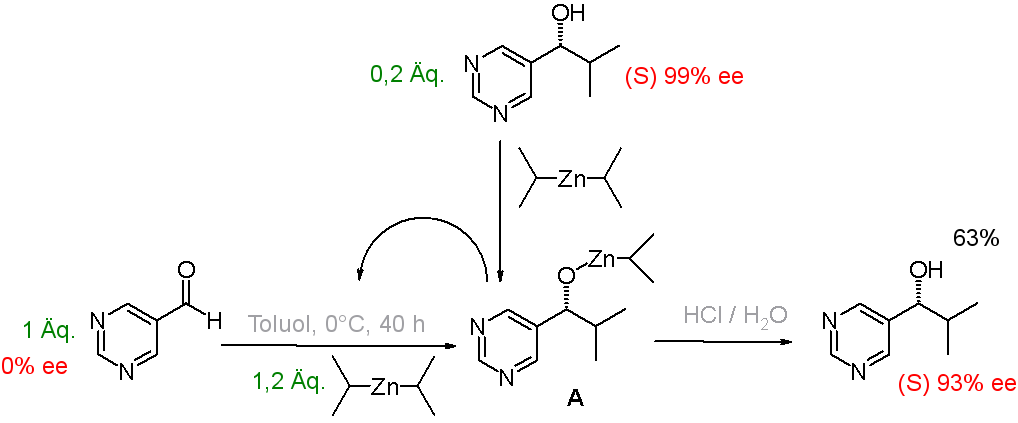 Autocatalytic alkylation of pyrimidine-5-carbaldehyde by Soai, with german captions